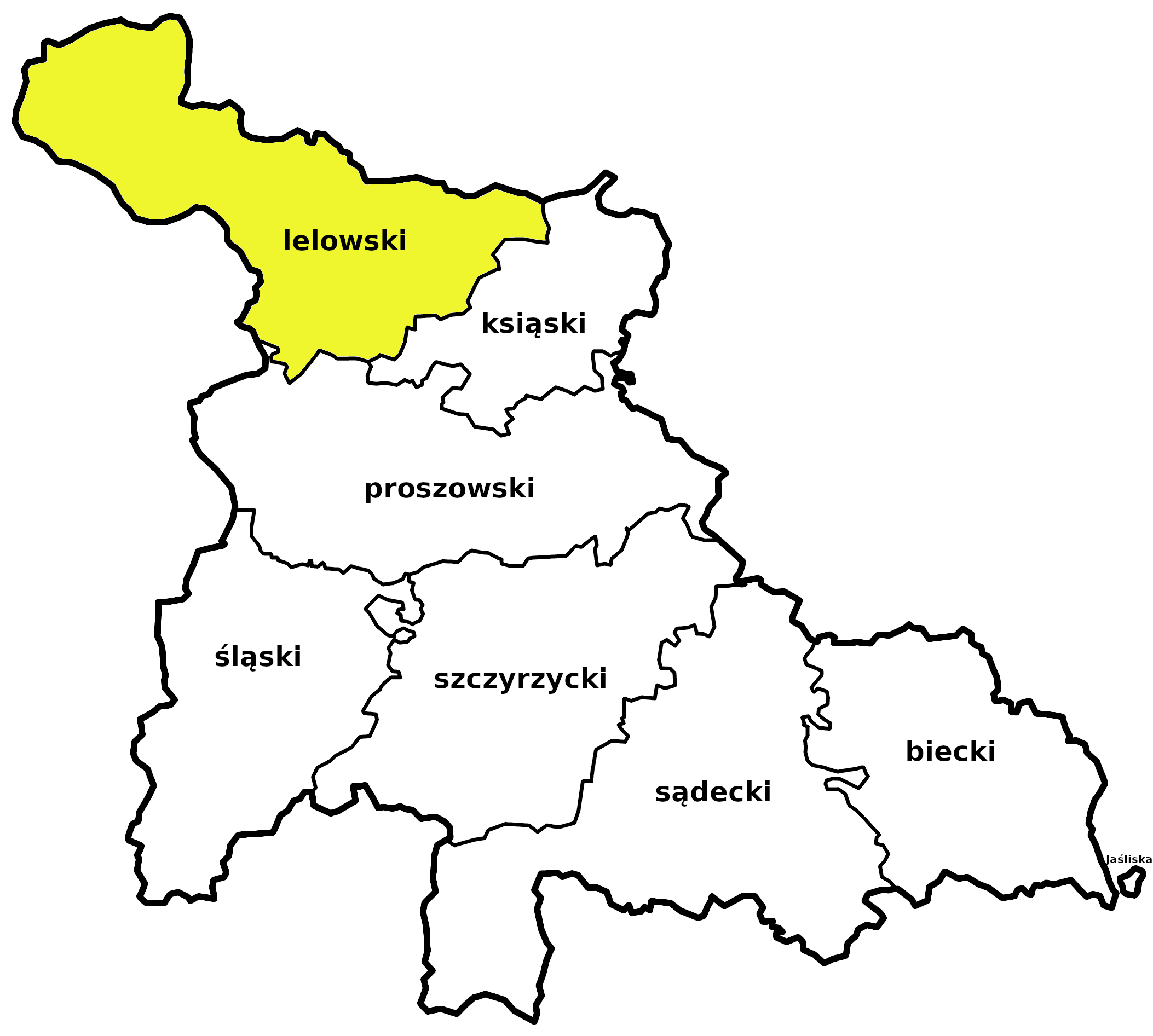 Lelów County of Kraków Voivodeship about 1600